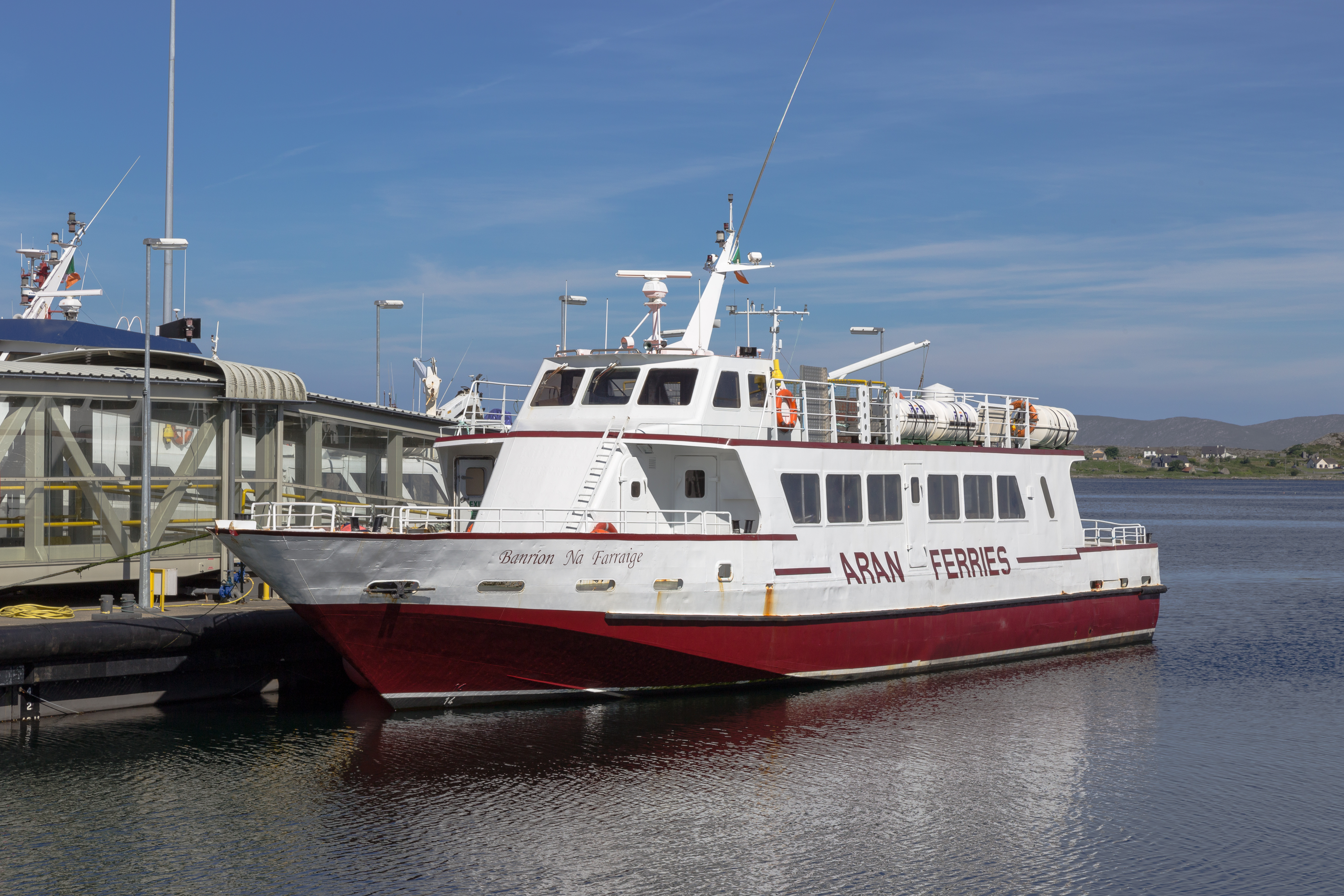 Aran Ferry "Banrion Na Farraige" in Rossaveel, Co. Galway (2014)